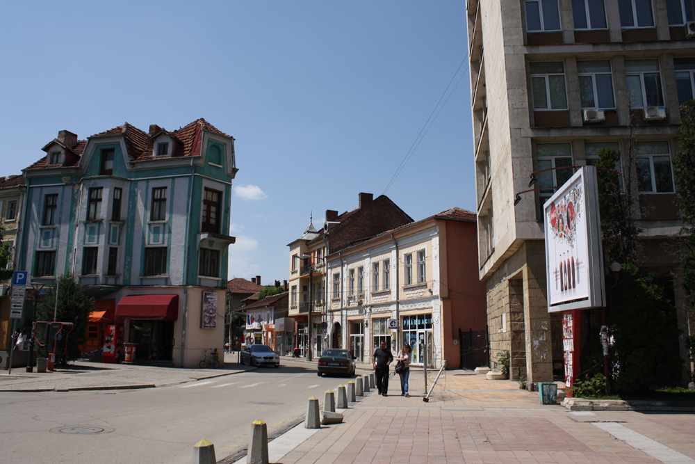 Montana, Bulgaria downtown